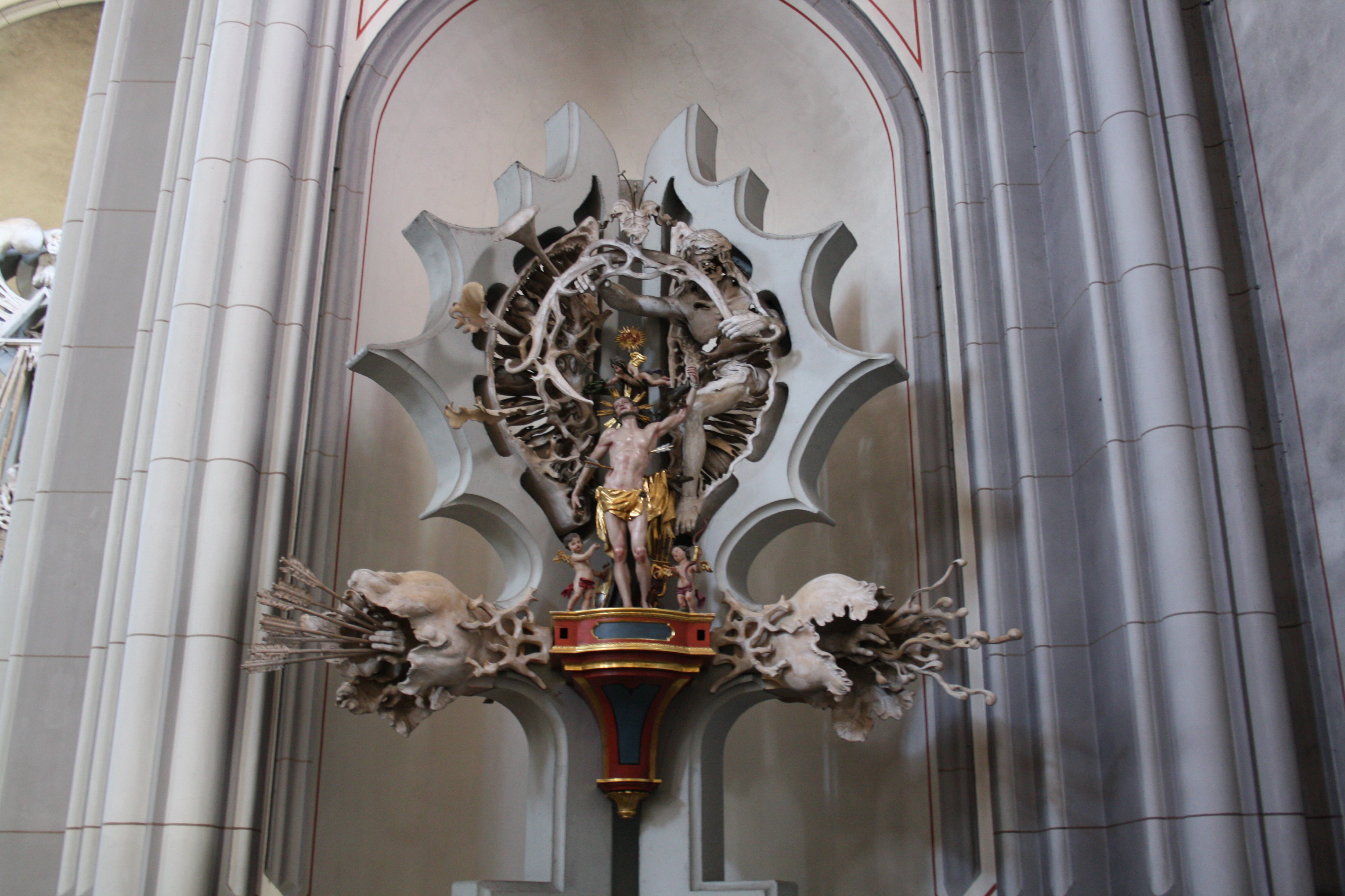 Telfs, St. Peter and Paul, the right altar and the resurrection.